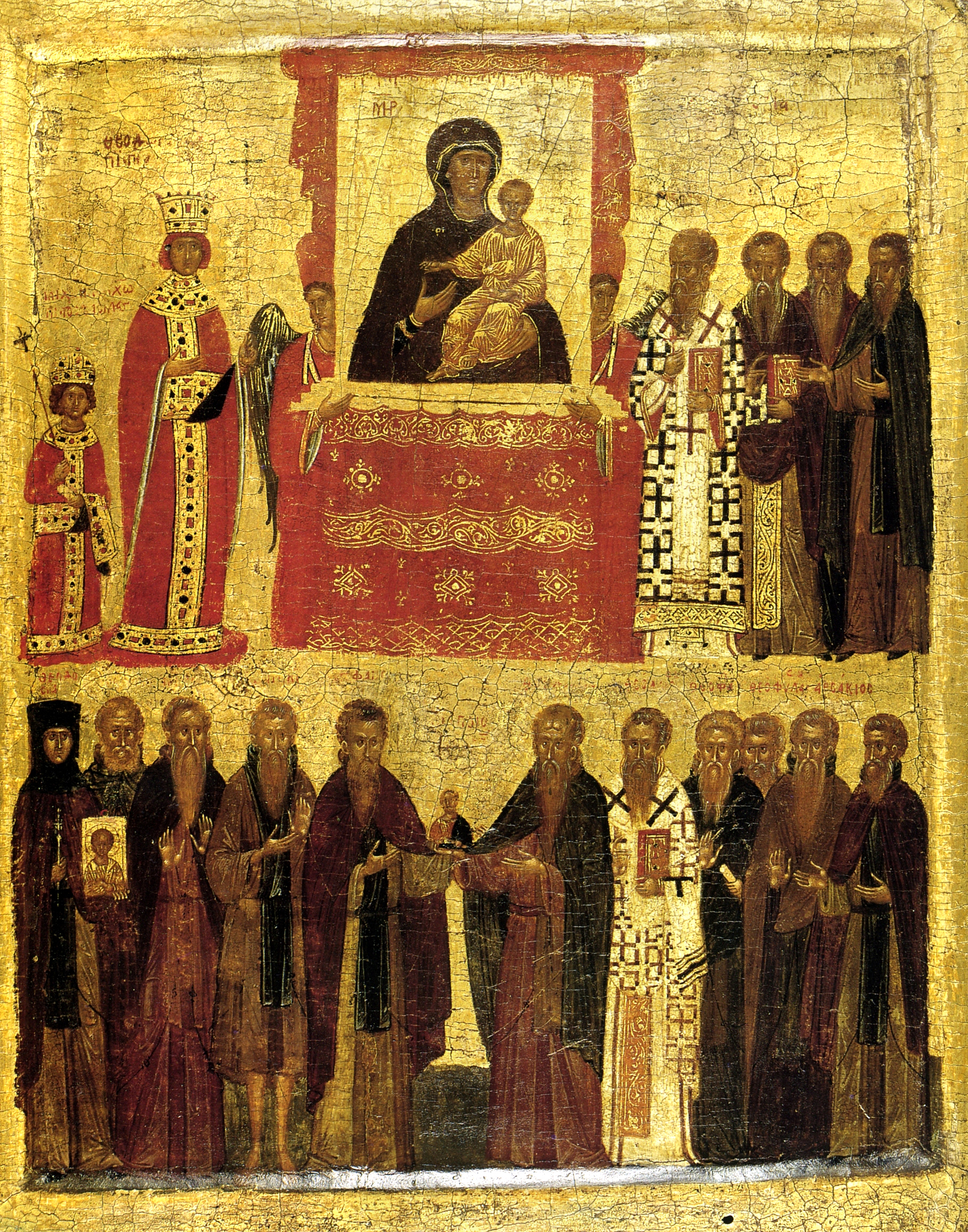 Late 14th-early 15th century icon illustrating the "Triumph of Orthodoxy" under the Byzantine empress Theodora over iconoclasm. Patriarch Methodios I of Constantinople is on the top right, close to the Virgin.